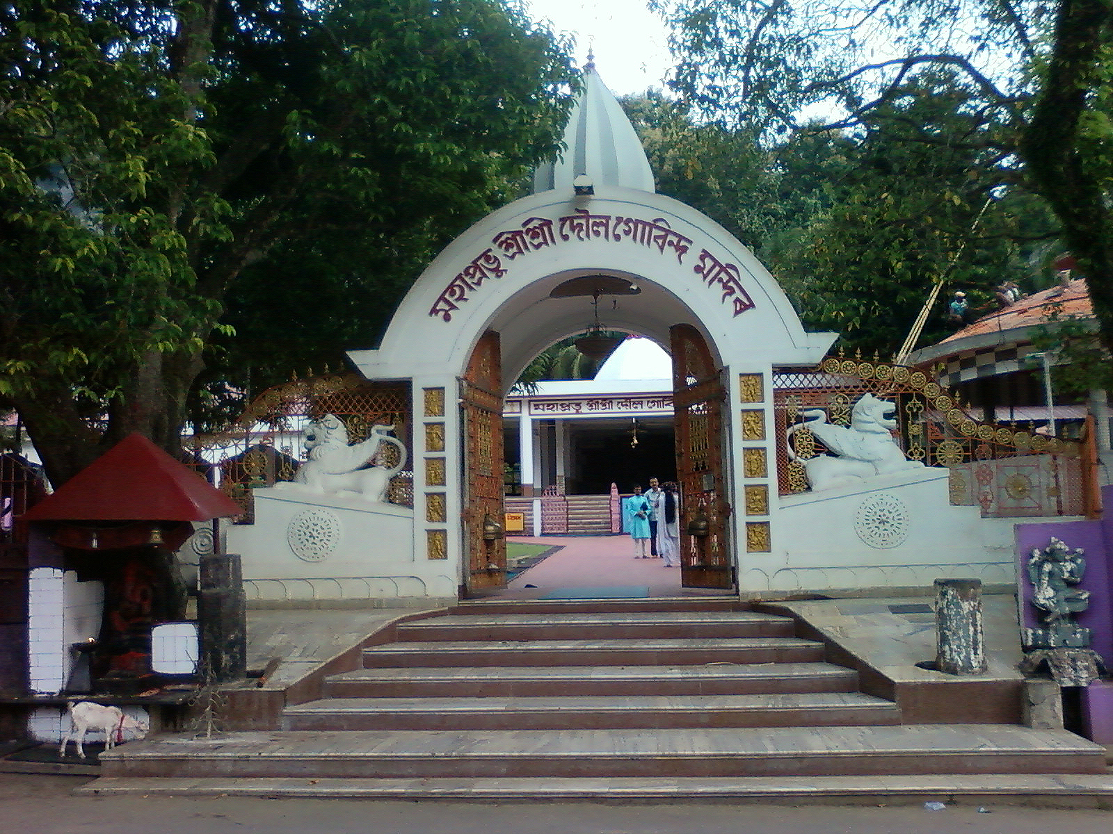 The Doul Govinda Temple is one of the most important temples, of many temples located in the Kamrup region of India, such as Kamakhya Temple.